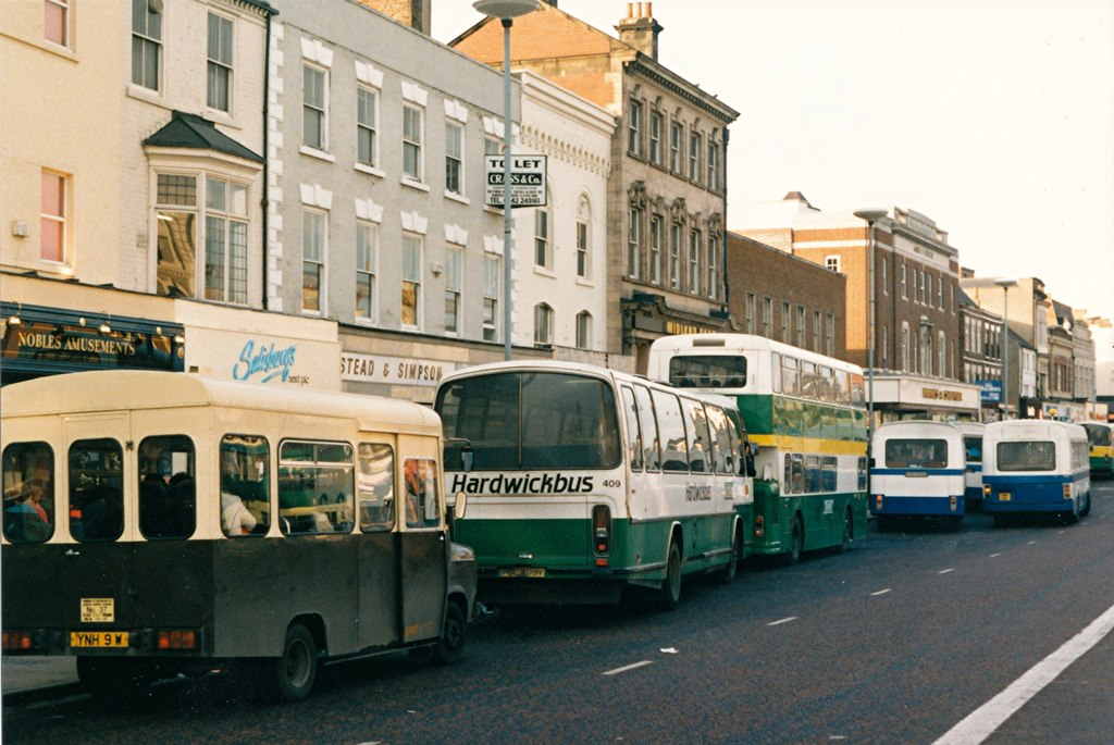 Bus wars in Stockton High Street (1988). Following the deregulation of local bus services in October 1986 intense competition between bus operators developed. This often resulted in scenes like this where a large number of buses in multi-coloured liveries fight for passengers.